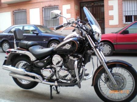 Daystar 125. By Euratom